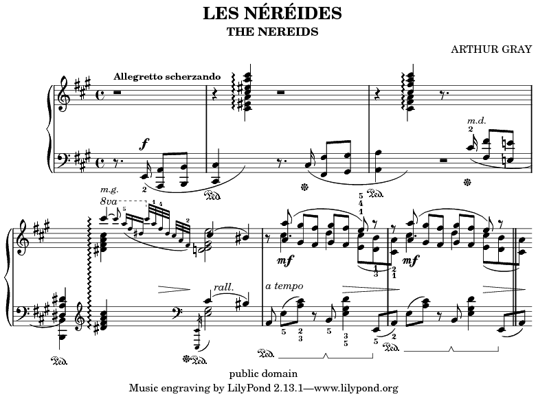 Public Domain sample file for the LilyPond Music engraving software project and web page. Music by Arthur Gray.